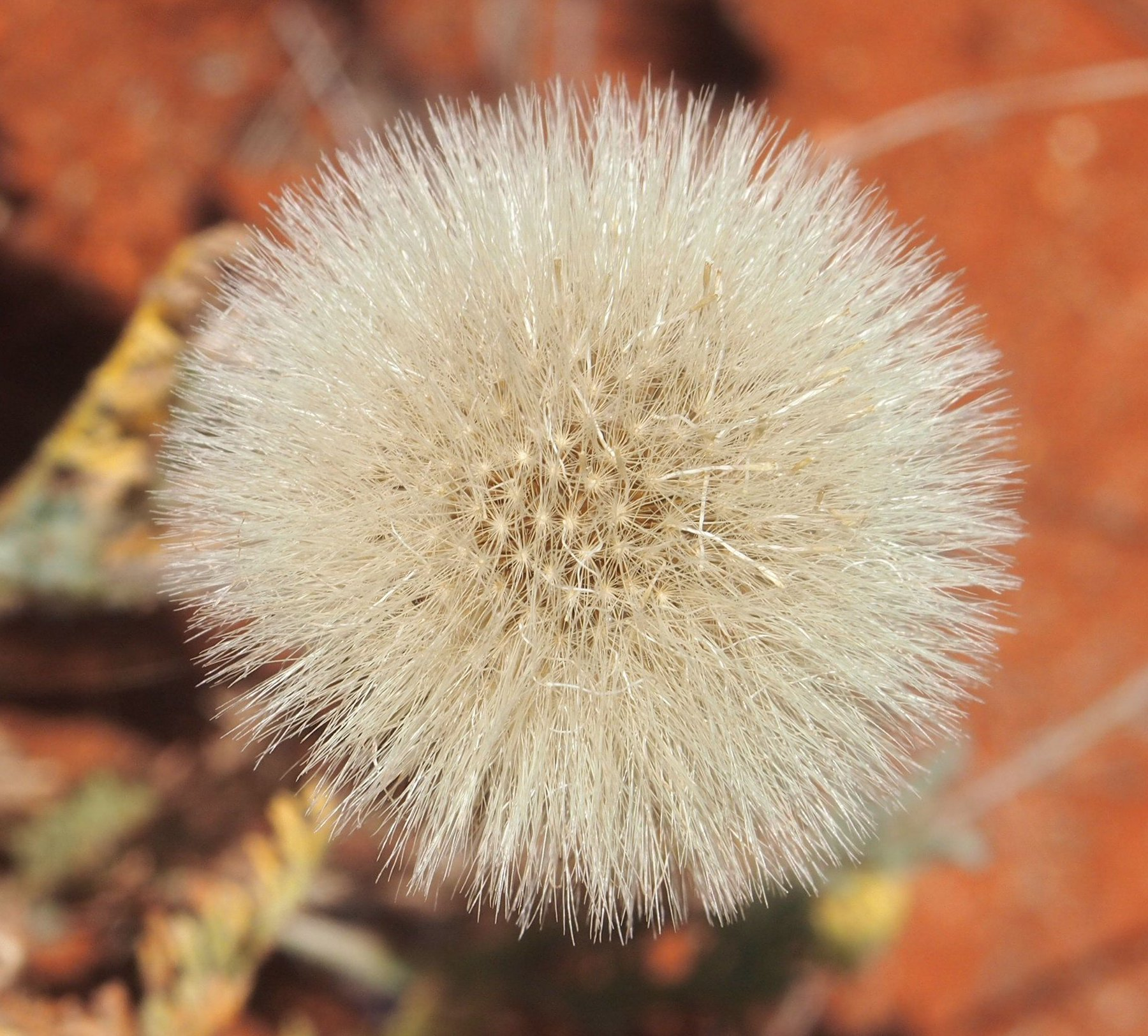 Senecio magnificus